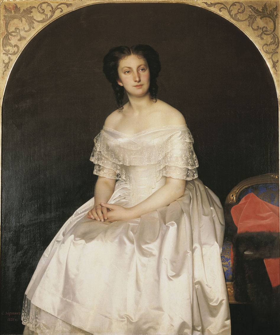 Portrait of Maria Vorontsova